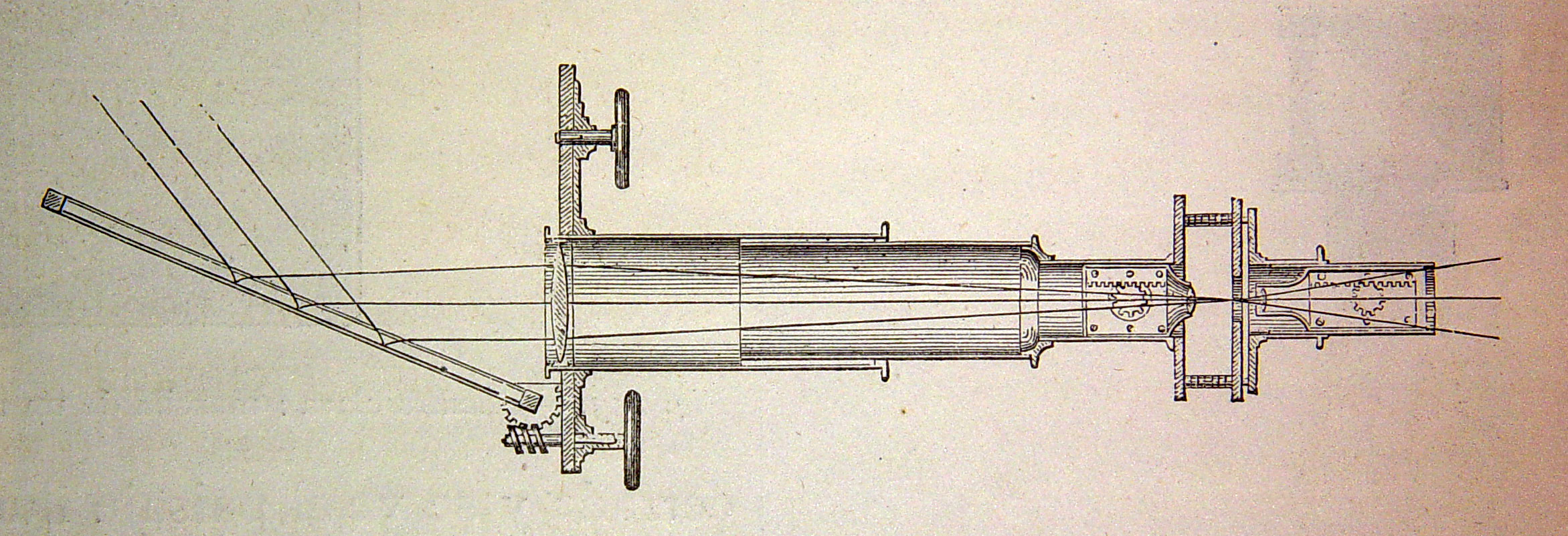 Optical path in solar microscope